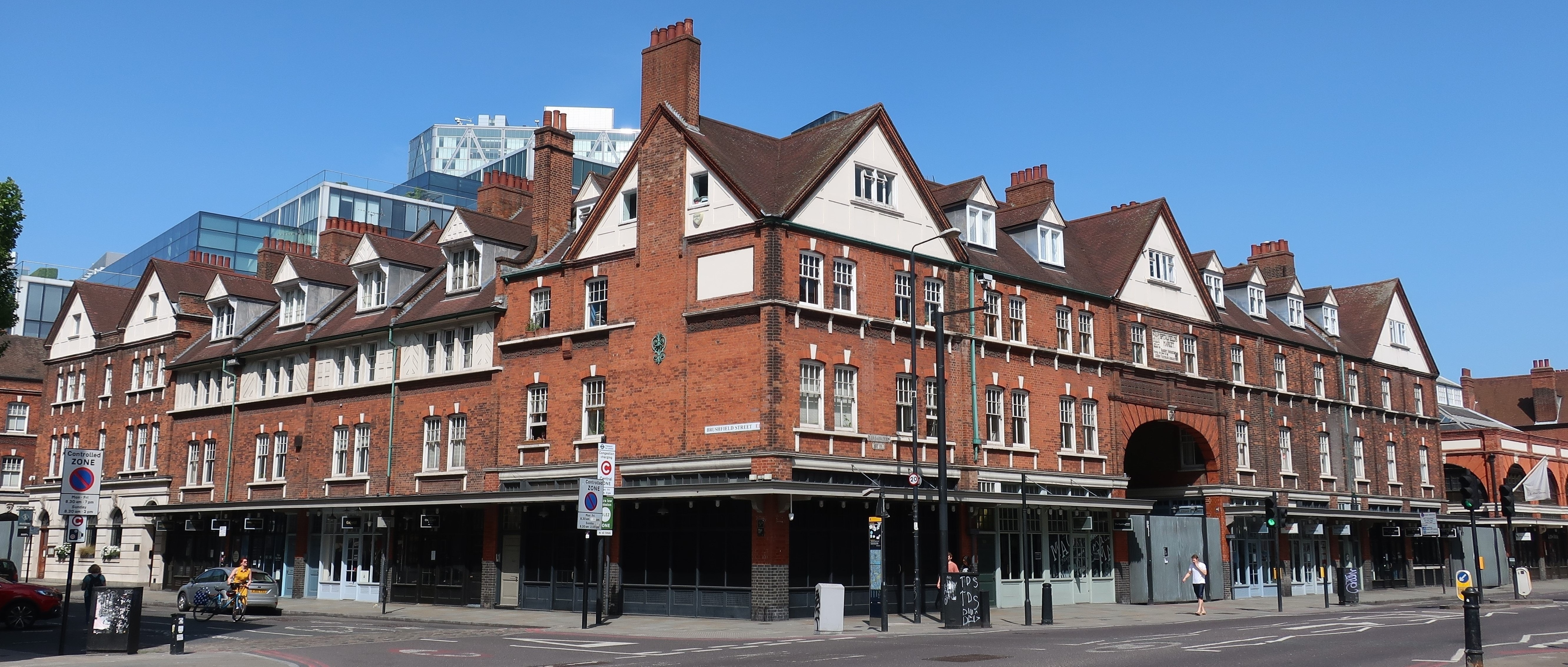 Old Spitalfields Market (built 1885-1893, designed by George Sherrin), London E1. South-east corner: junction of Commercial Street and Brushfield Street.